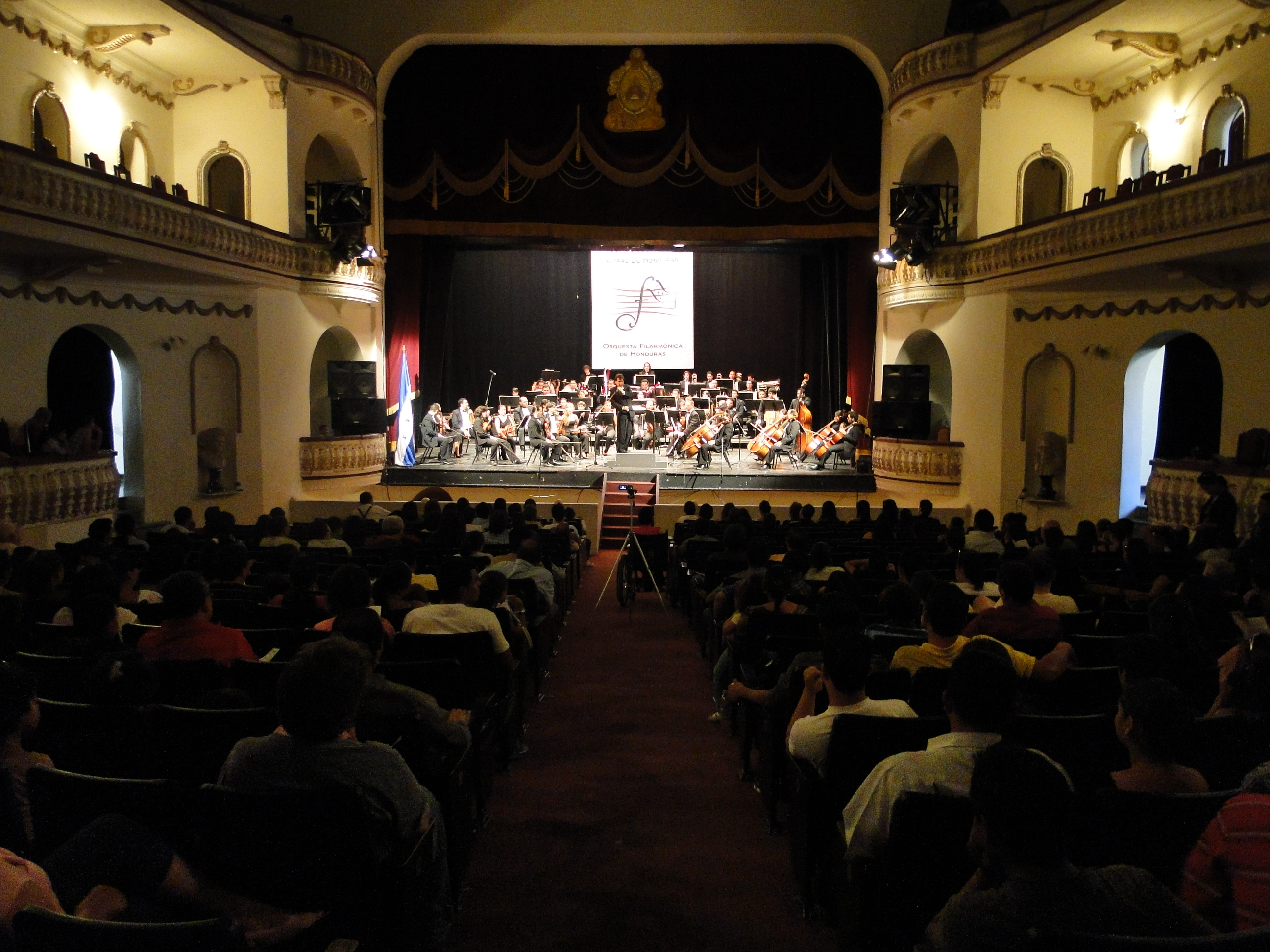 The Honduras Philarmonic Orchestra playing at the Manuel Bonilla National Theater.